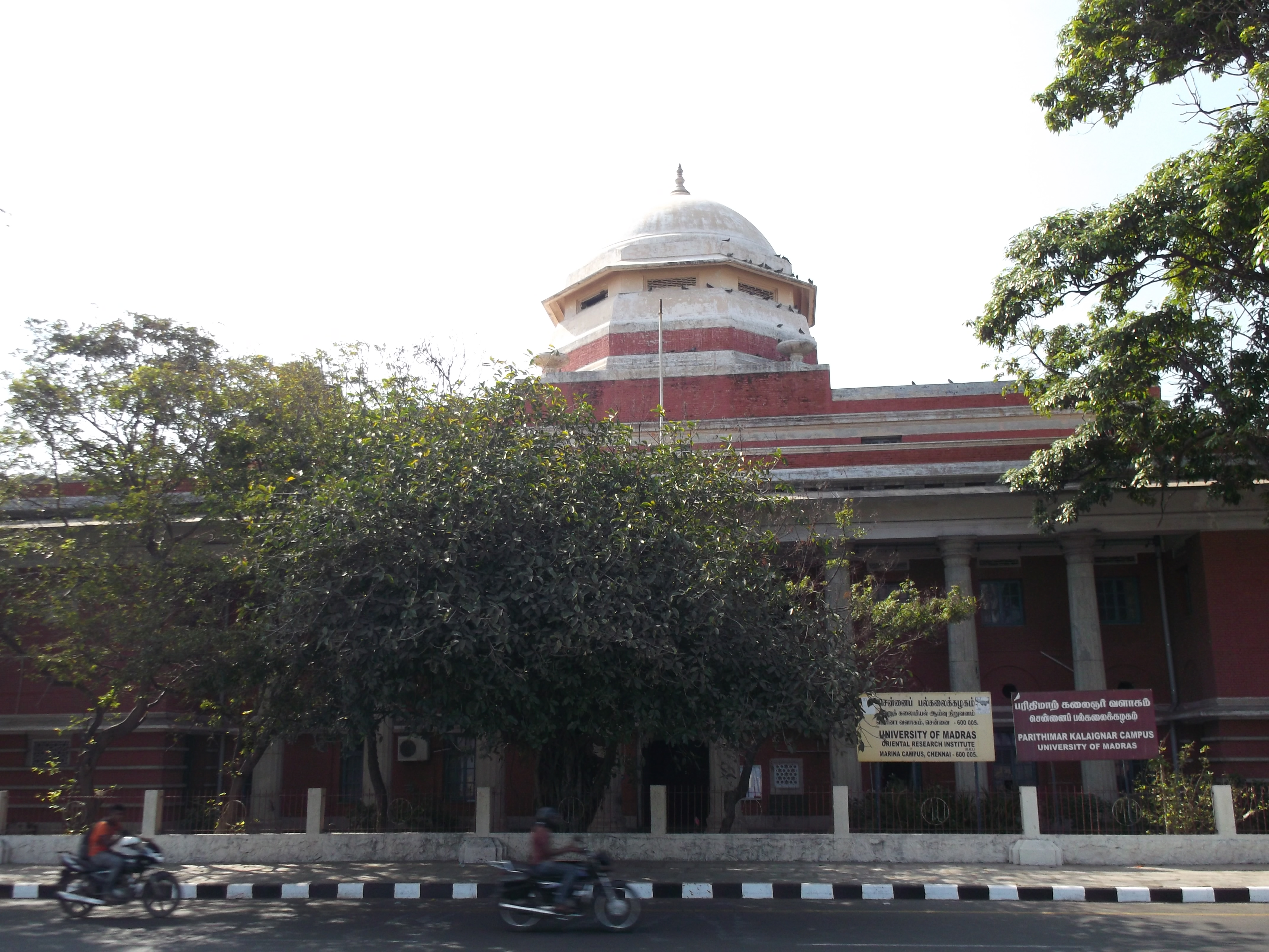 University of Madras campus in Triplicane, Chennai, taken on 2-Feb-2013 at 3:00 pm